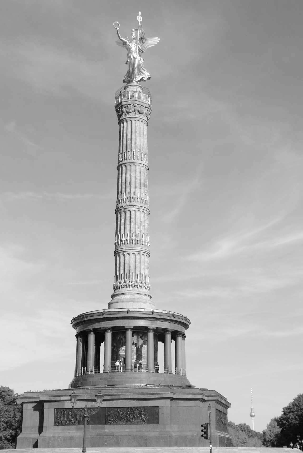 The Siegessaule Victory Column, Berlin, Germany.